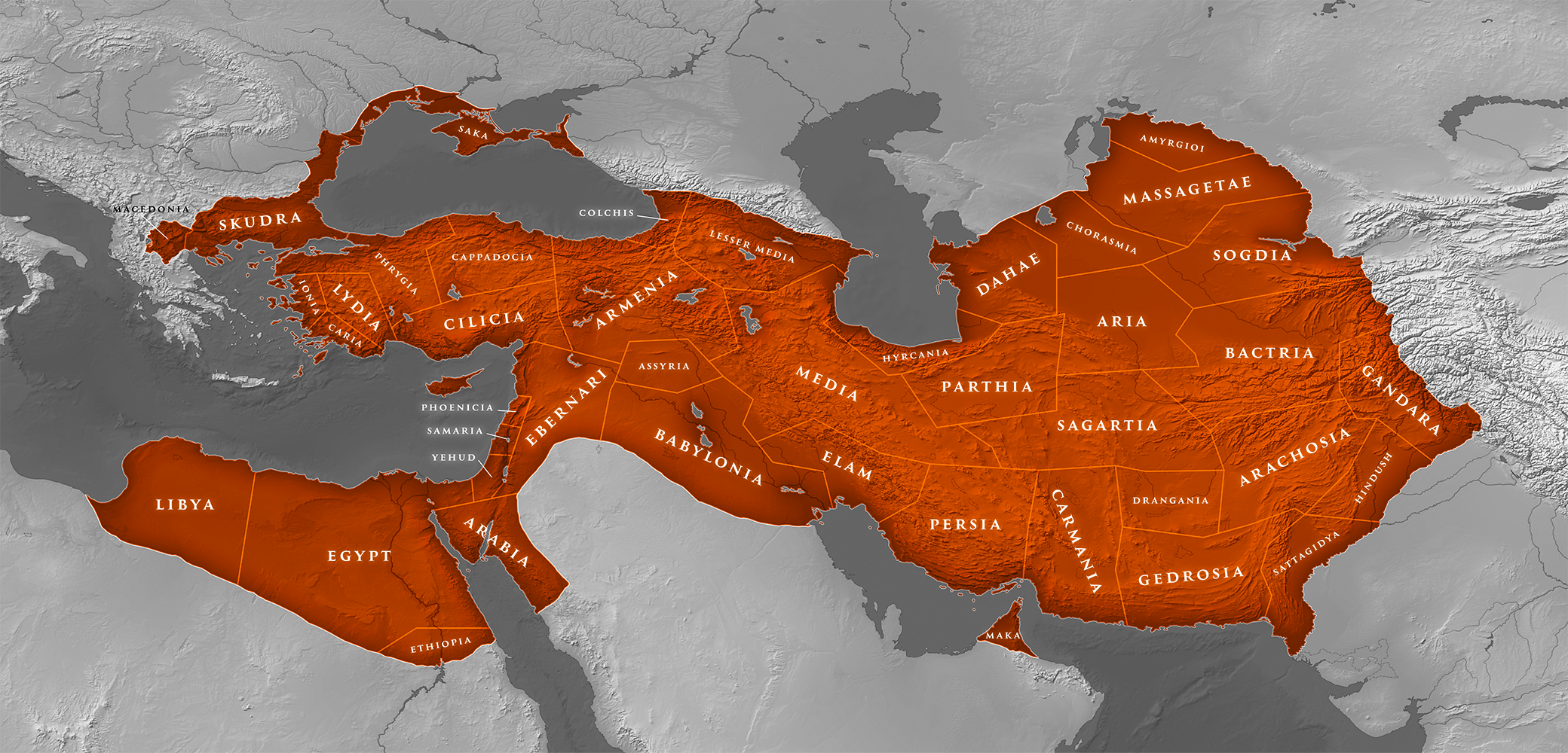 A map showing the Achaemenid (Persian) empire around 480BC, at its largest extent. Different satrapies are shown.